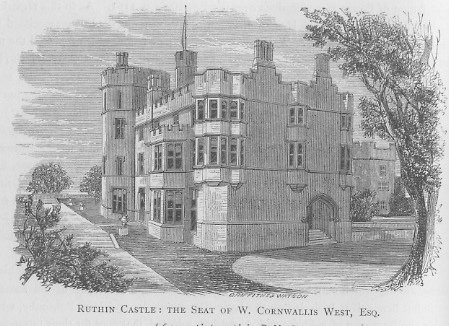 Ruthin Castle, Denbighshire Thomas Nicholls “Annals and Antiquities of the Counties and County Families of Wales, Longmans, London 1872. Vol 1, 372